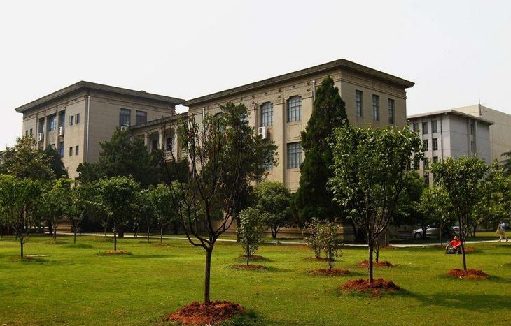 Old Russia-style library in Huazhong University of Science and Technology